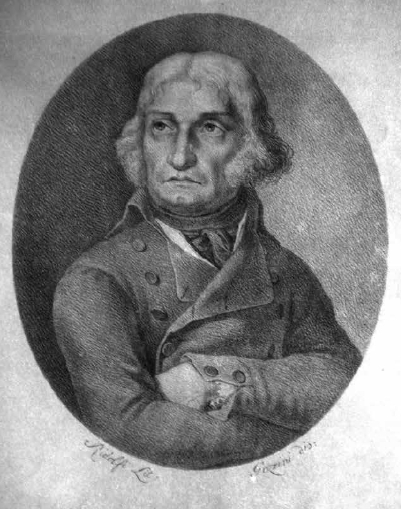 Giovanni Mariti's portrait in lithography made in 1785